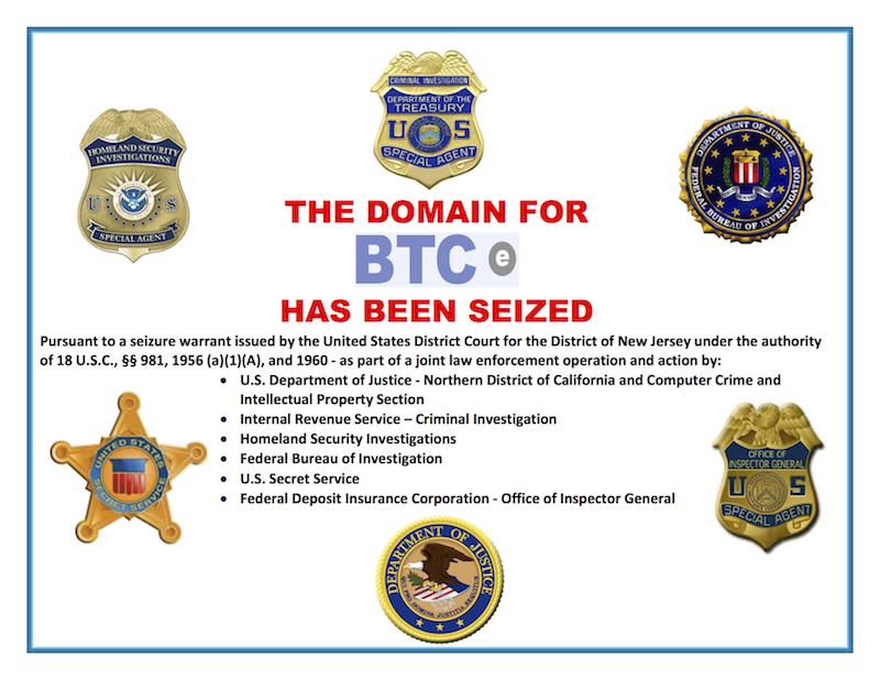 website BTC-e Domain Seized by U.S. Law Enforcement banner